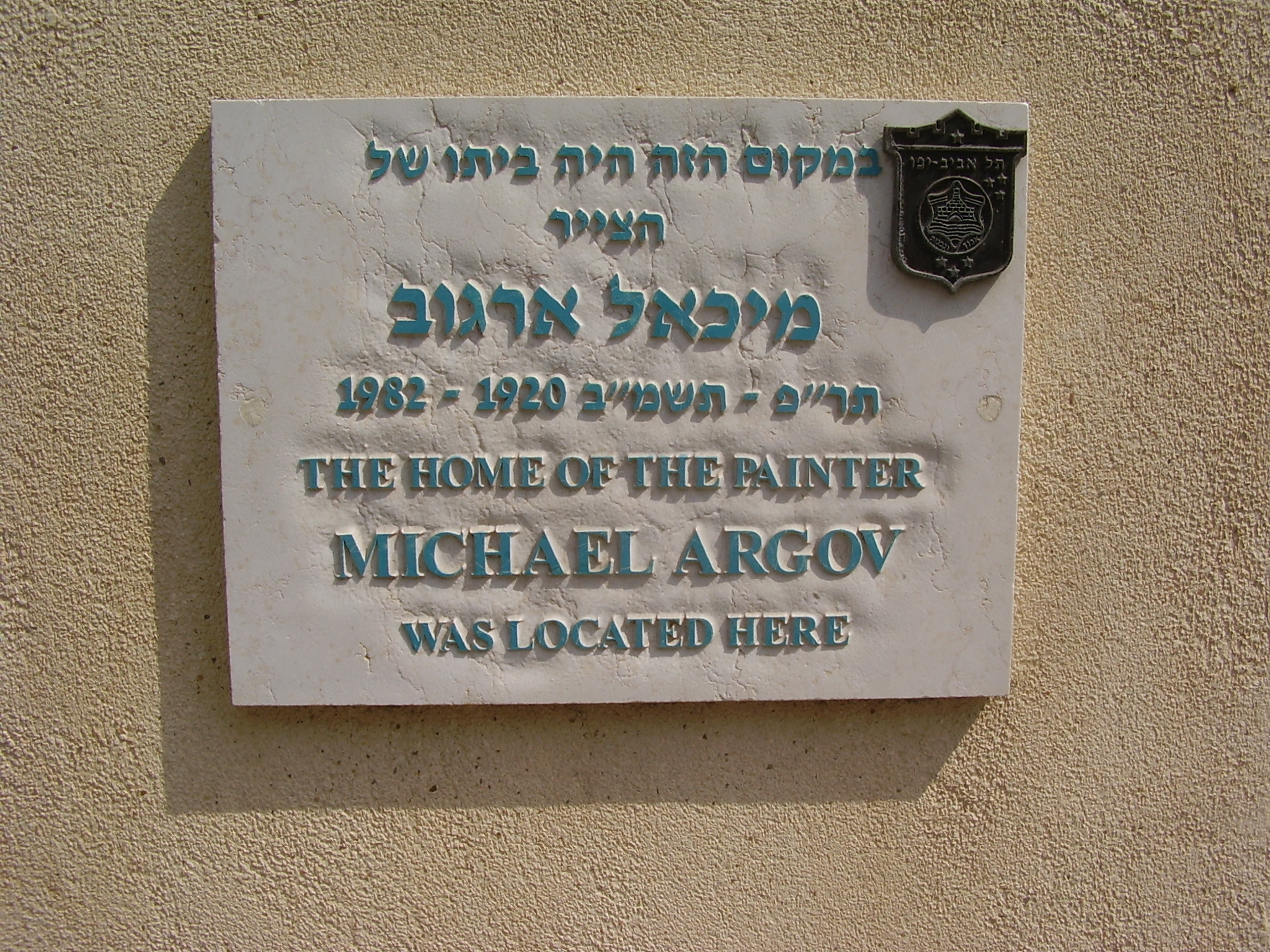 memorial plaque on the painter michael argov house in tel aviv לוחית זיכרון על הבית בו היה מקודם ביתו של מיכאל ארגוב ברחוב גורדון 1 בתל אביב